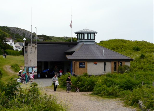 Horton Horton IRB Station.